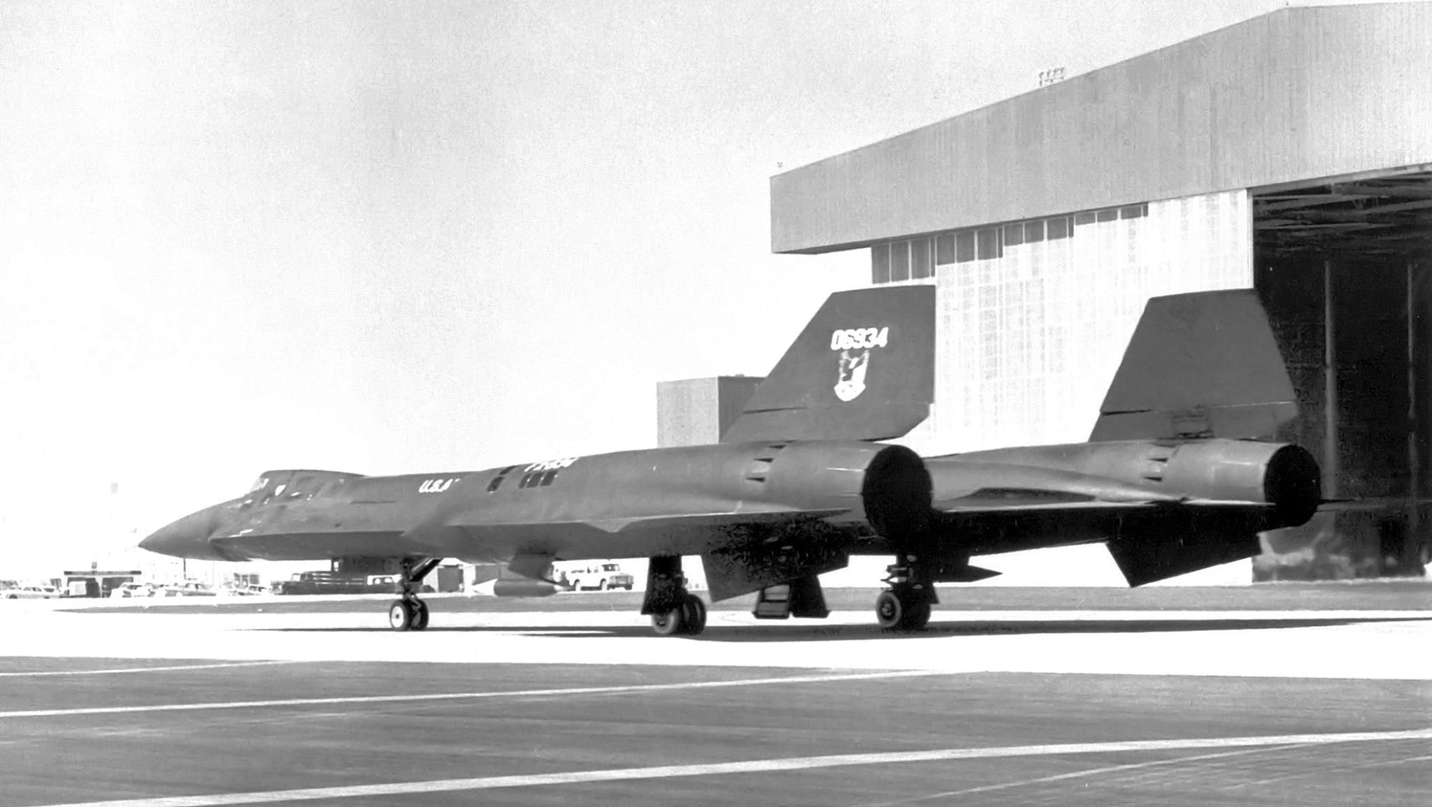 Lockheed YF-12A 60-6934 in Air Defense Command markings 1963. The only YF-12A in ADC markings, its first test flight occurred on 7 August 1963 at Groom Lake, Nevada. It was extensively tested at Edwards Air Force base. The cost of the Vietnam War, and the perceived lessened need for a Mach-3 interceptor led to the F-12 program being canceled by the end of 1967. This aircraft damaged beyond repair by fire at Edwards during a landing mishap on 14 August 1966; its rear half was salvaged and combined with the front half of a Lockheed static test airframe to create the one and only SR-71C 64-17981.